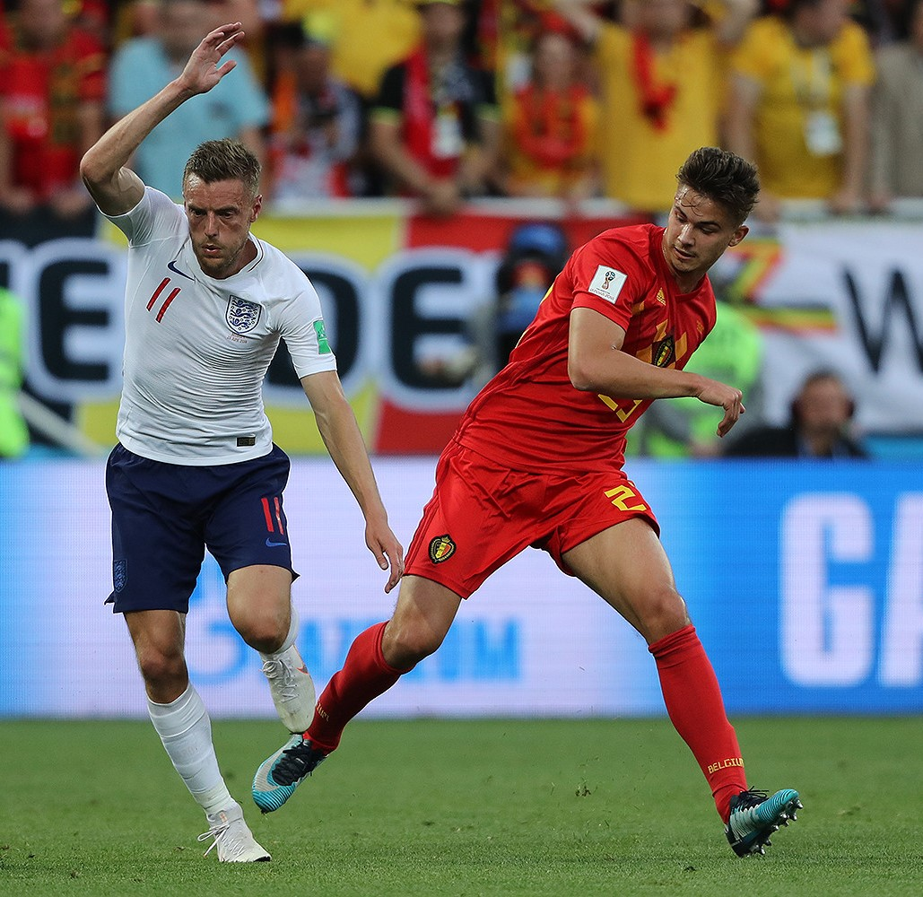 Leander Dendoncker, Jamie Vardy